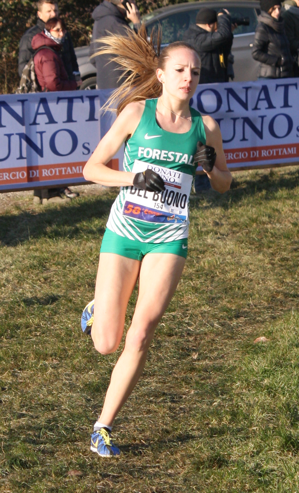 The Italian athlete Federica Del Buono during the 58th edition of Campaccio.